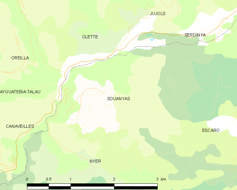 Map of French municipality